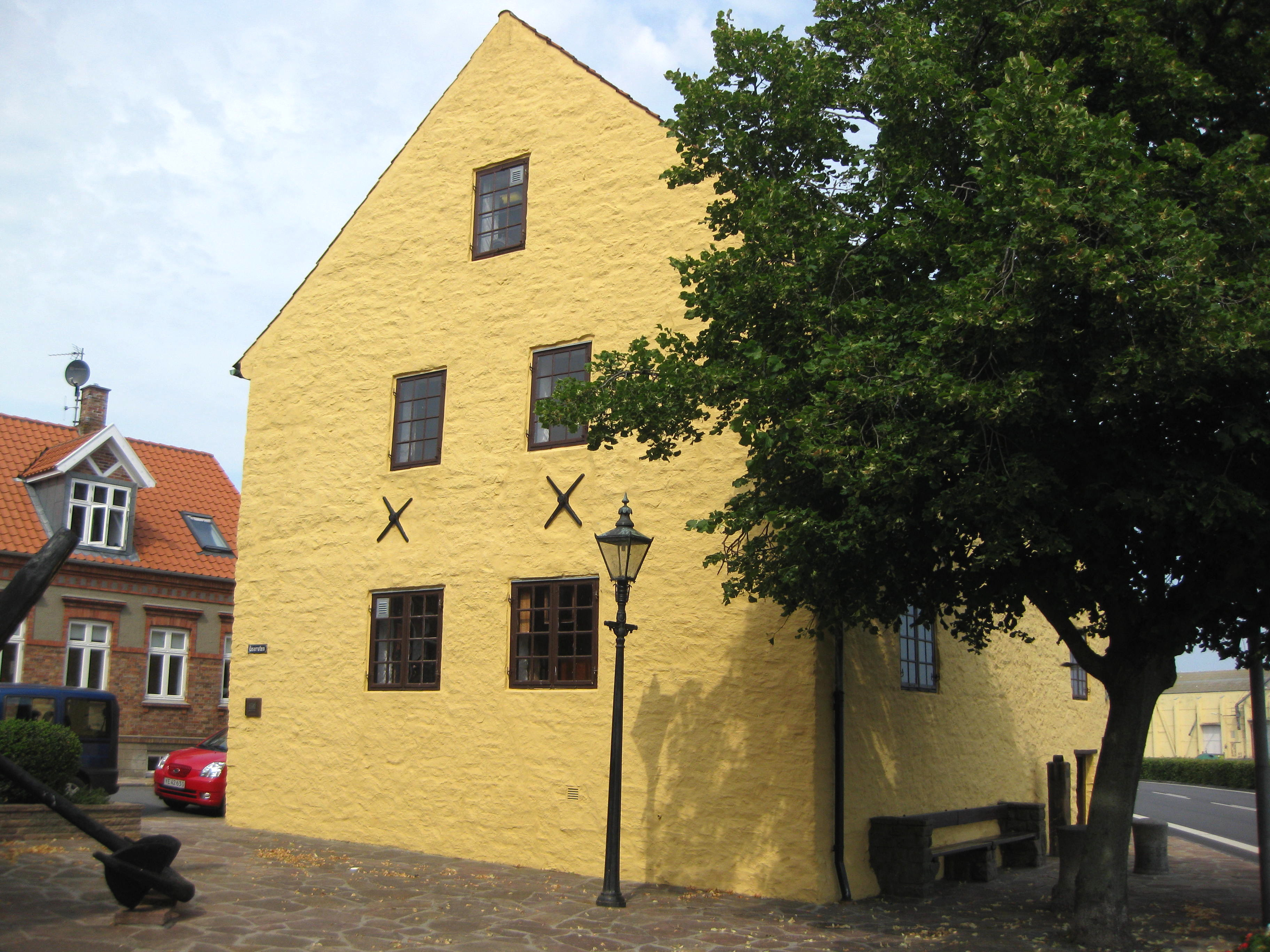 "Nexø Museum" located in the small town "Nexø" on the island Bornholm (east Denmark).